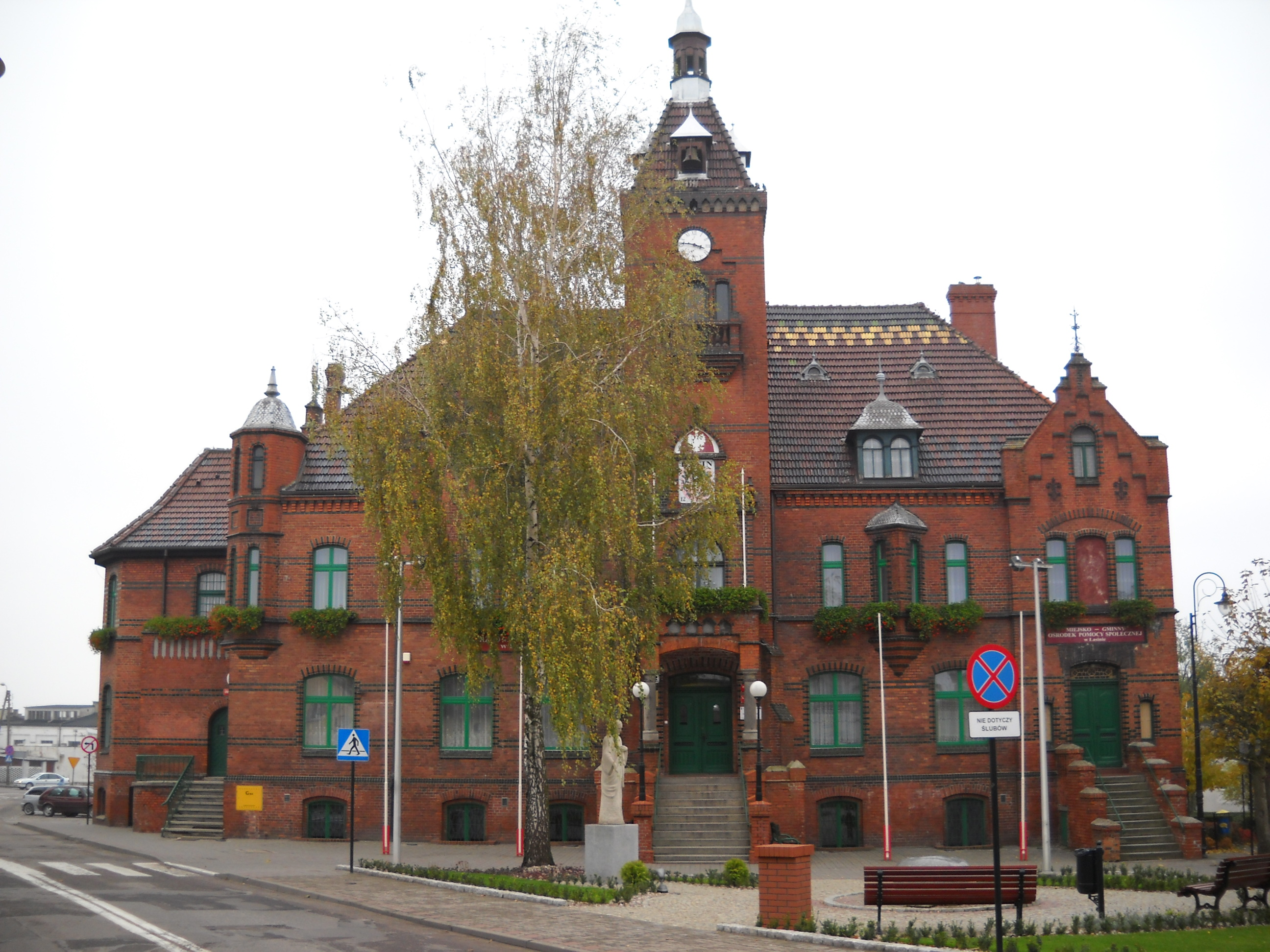 Łasin Town Hall